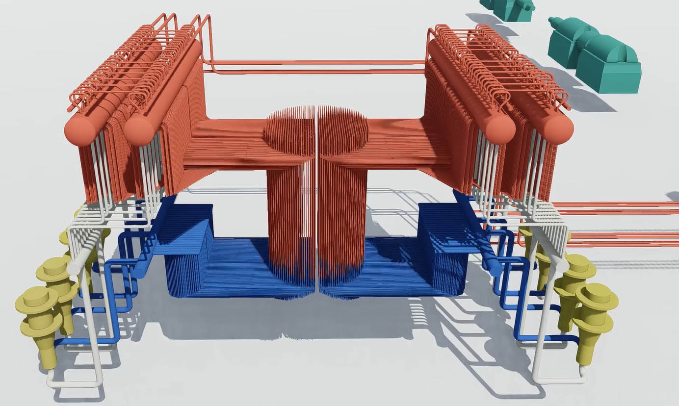 Illustrated are the channells in the core, steam separators (red), circulation pumps (yellow) and pipe networks.